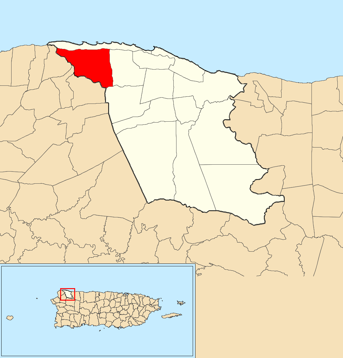 Jobos, Isabela, Puerto Rico locator map